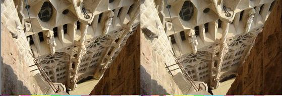 View from Sagrada Familia, Barcelona. Stereo Photo